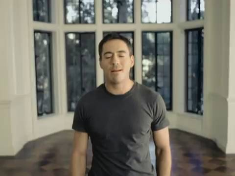 Downey in Elton John's I want love